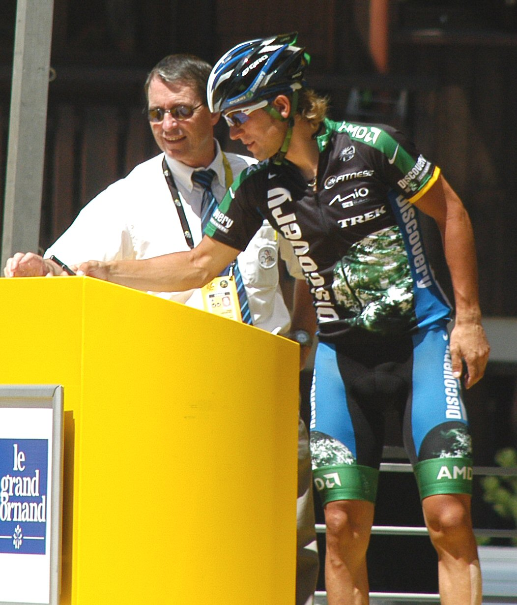 Vladimir Gusev at the start of stage 8 in Le Grand Bornand, Tour de France 2007.